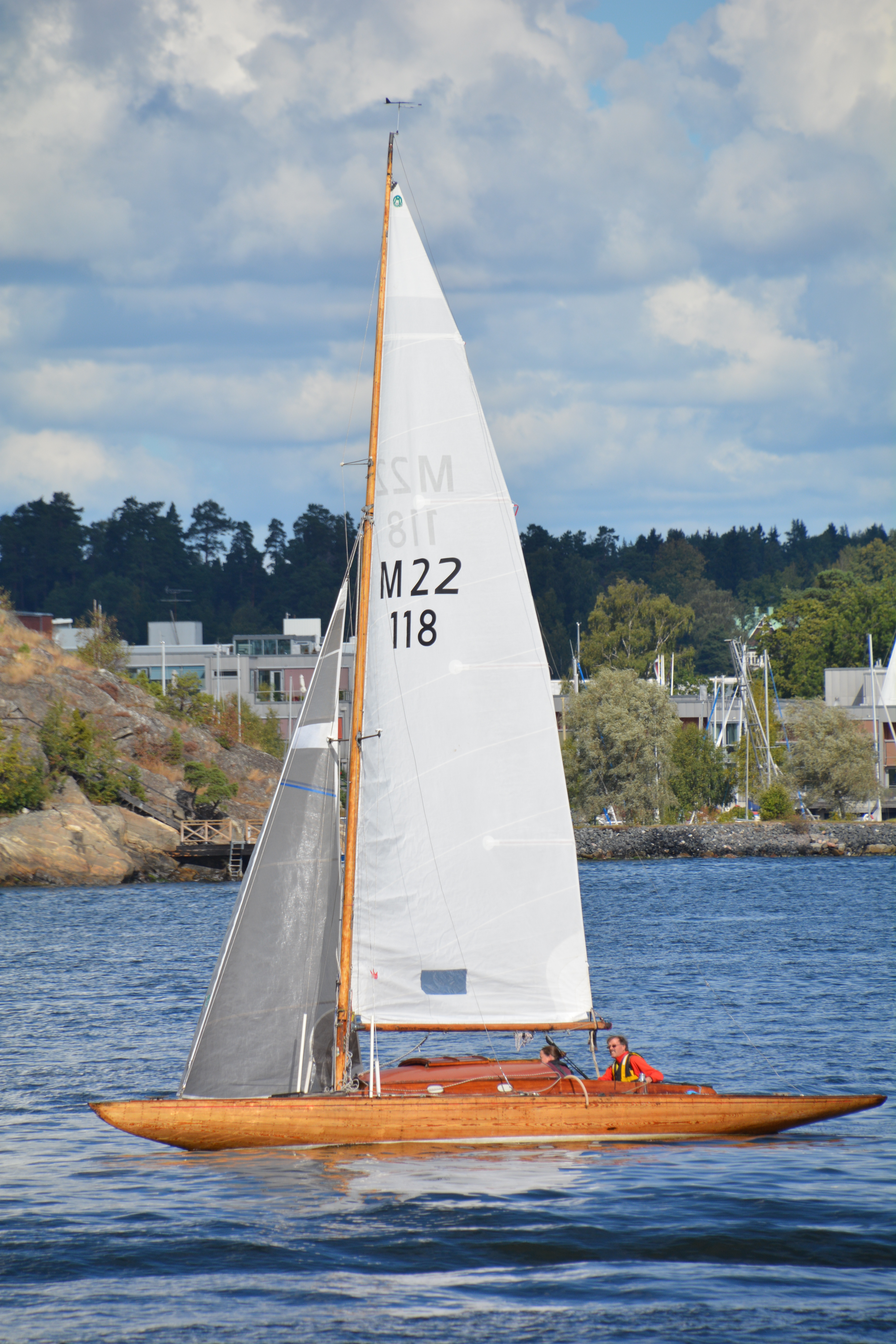 S/Y Maruna, a Swedish Mälar 22 type sailing yacht, built 1945